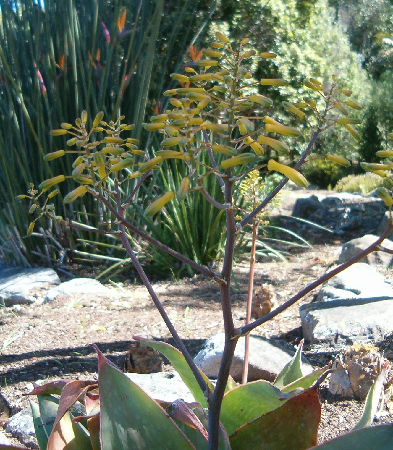 At Kirstenbosch National Botanical Gardens Species Aloe reynoldsii